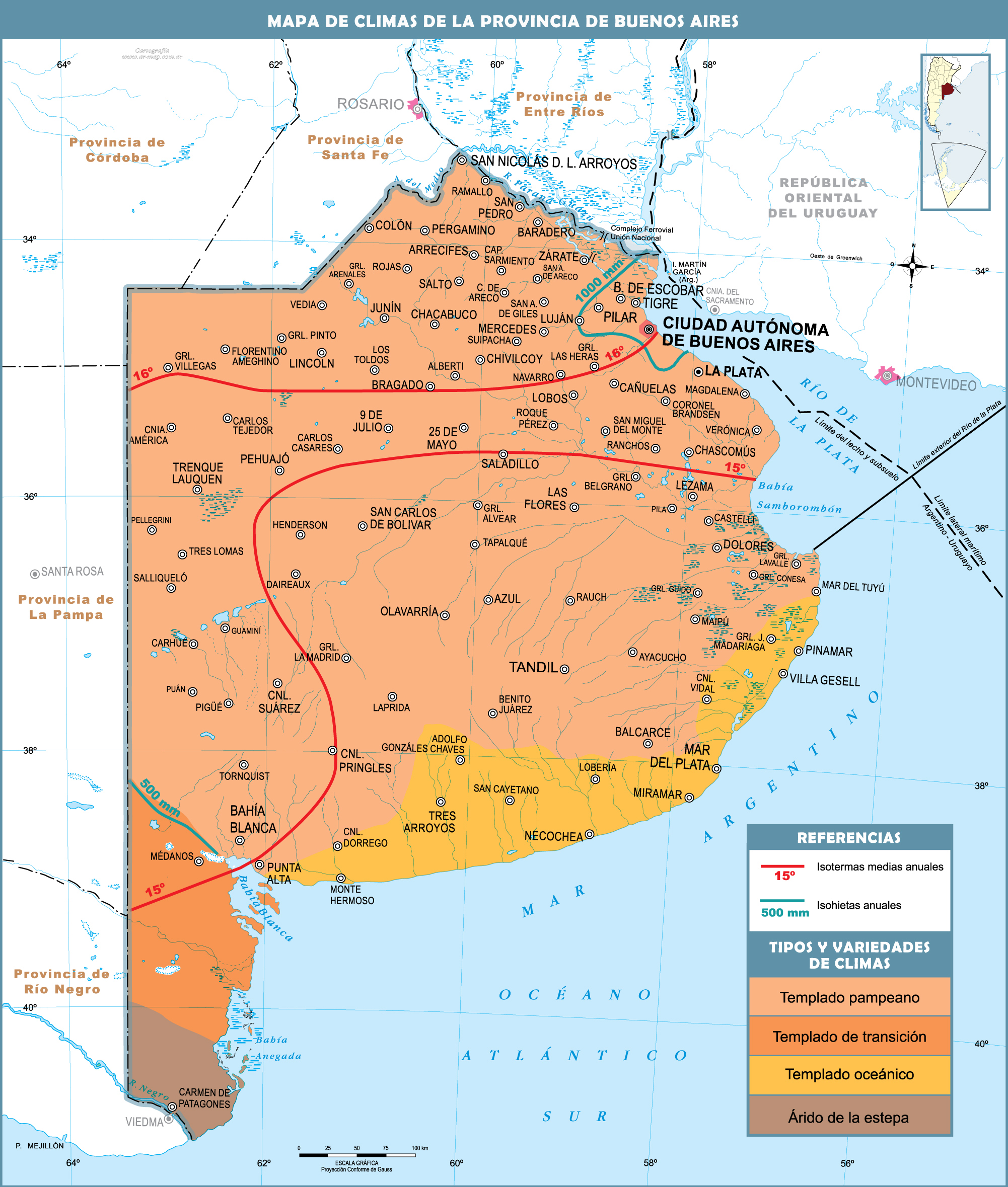 Weather map of Buenos Aires province